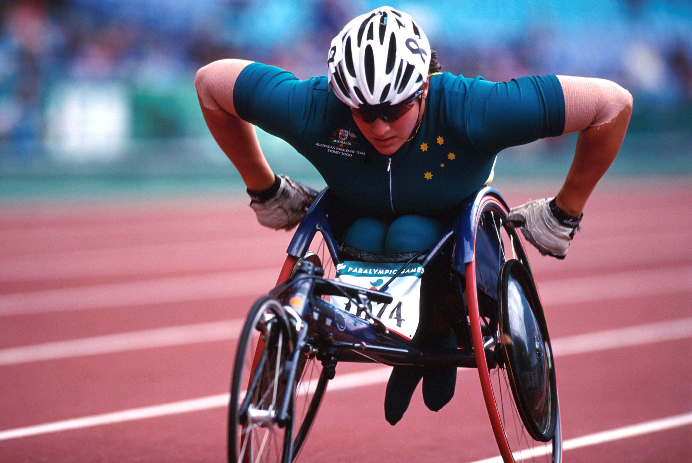 Action shot of Australian wheelchair racer Louise Sauvage during a race at the 2000 Sydney Paralympic Games